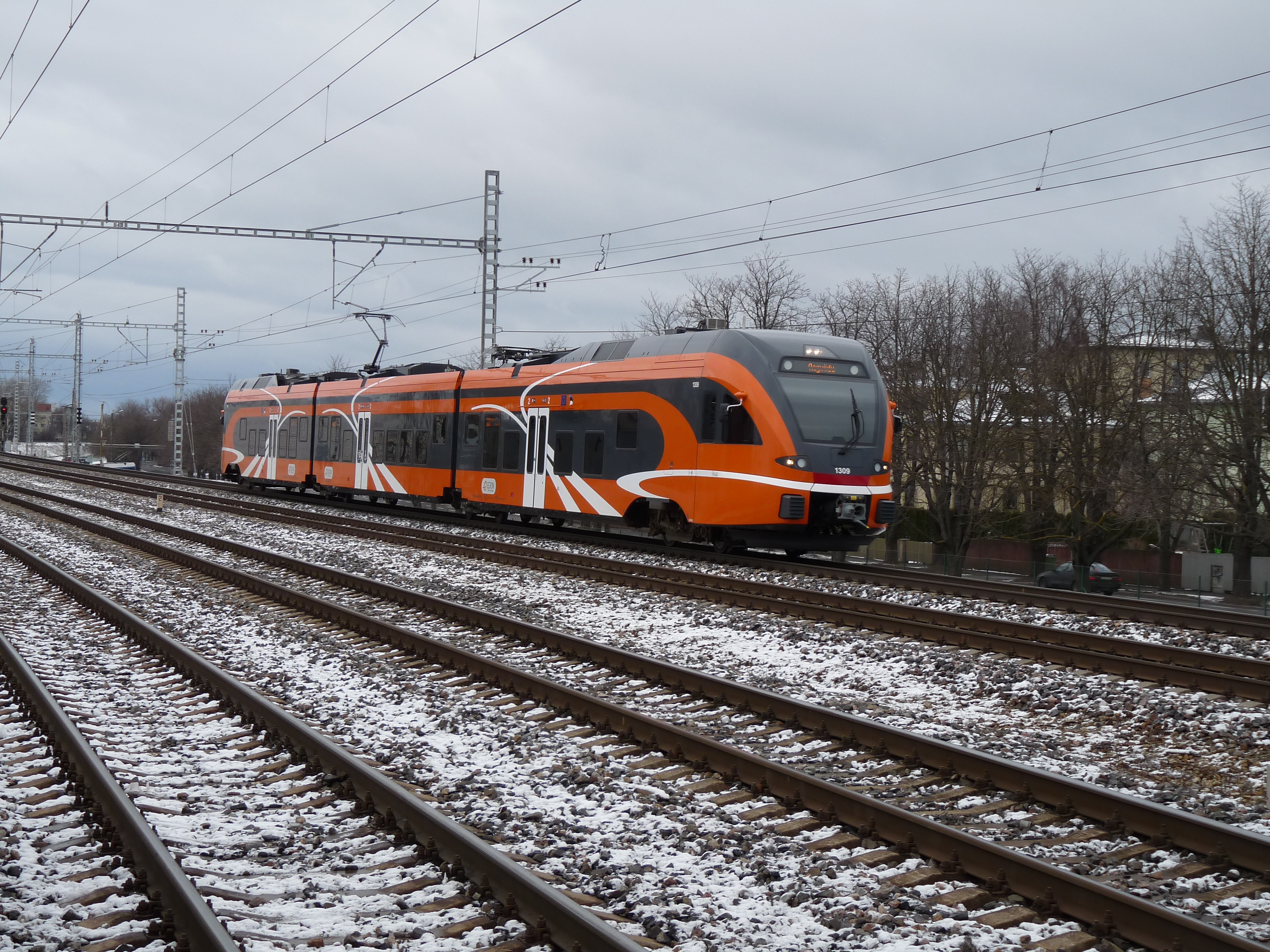 Stadler FLIRT in Tallinn, Estonia